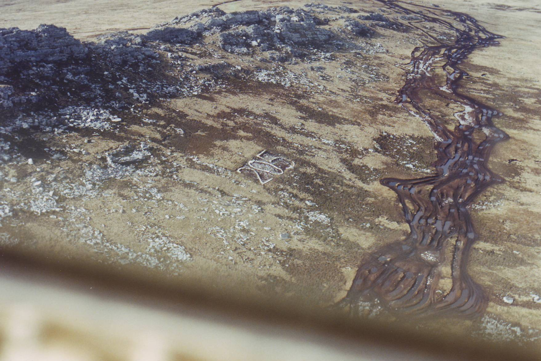 Aerial view of the memorial site for the Gazelle XX377 shootdown incident, Pleasant Peak, Falkland Islands. The numbers "205" are rocks painted white, they refer to 205 Signal Squadron.